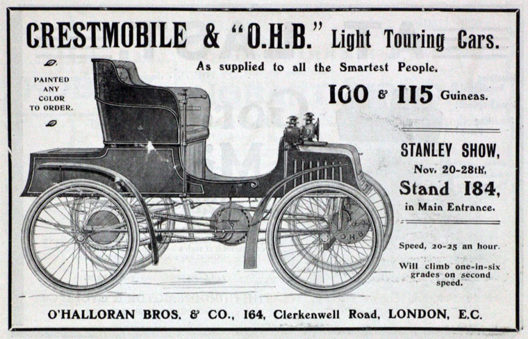 Crestmobile and O.H.B. advertisement by European Crestmobile representatives, O’Halloran Brothers, London. This ad appeared two days before the 1903 Stanley Cycle Show opening. The illustrated O.H.B. was O’Halloran Brothers' Crestmobile Derivate, showing its single cylinder engine under the floorboard, and chain drive to the rear axle.